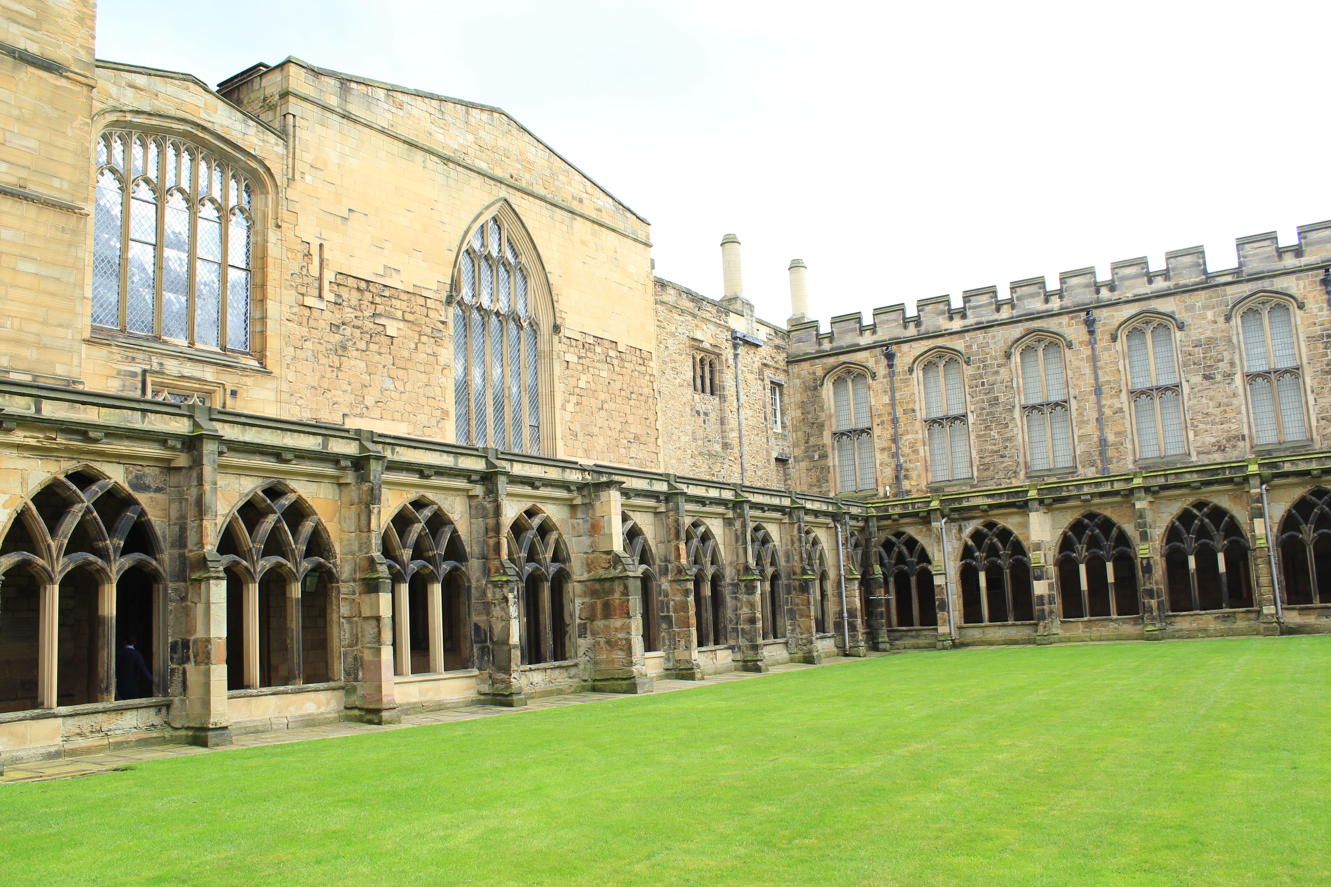 Durham Cathedral, March 2017 (14) This file was generated using equipment from Wikimedia UK, a Wikimedia local chapter.